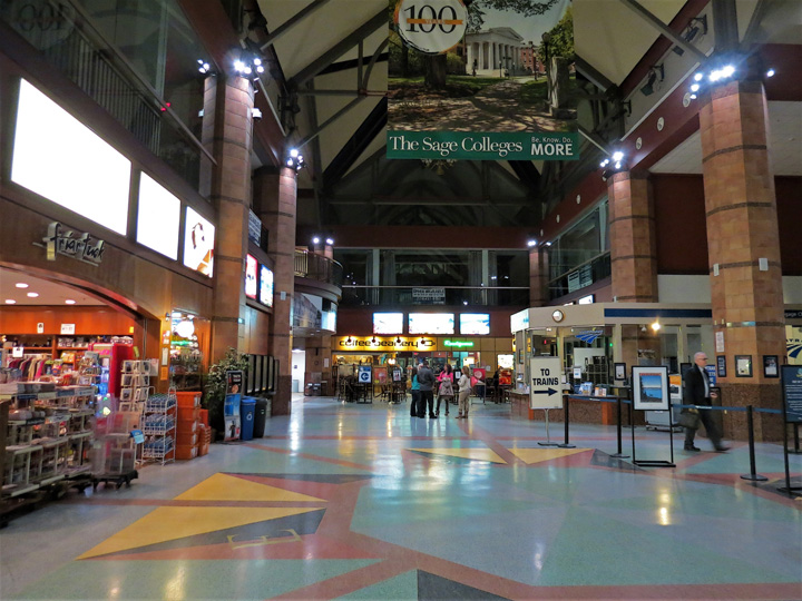 Interior view looking south from the train concourse.